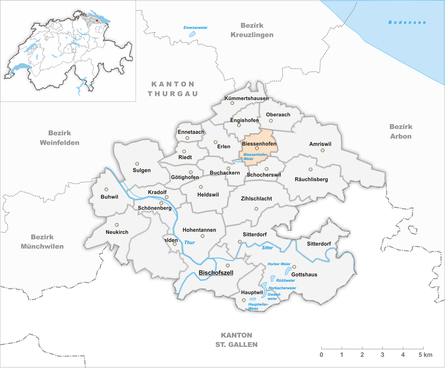 Municipality Biessenhofen